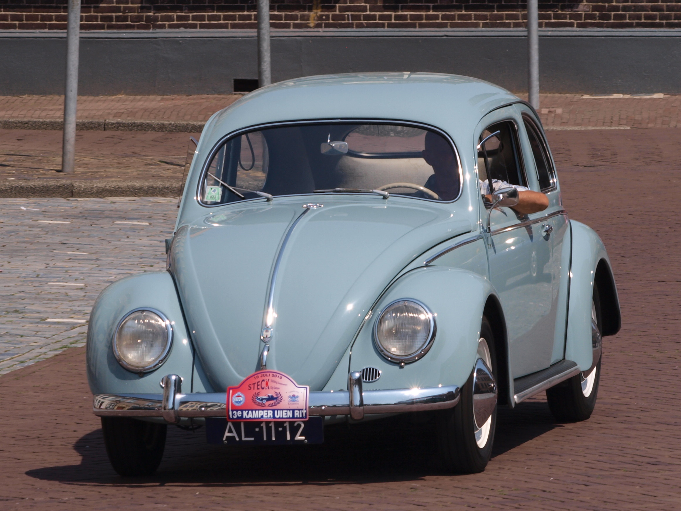 Photographed at Kampen, The Netherlands.